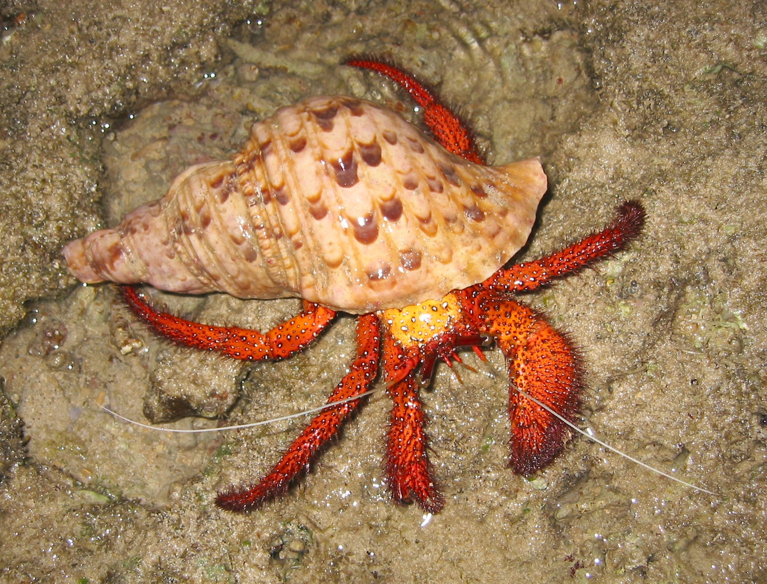 Dardanus megistos, wearing triton, taken at Haemida beach, Iriomote island, Japan.